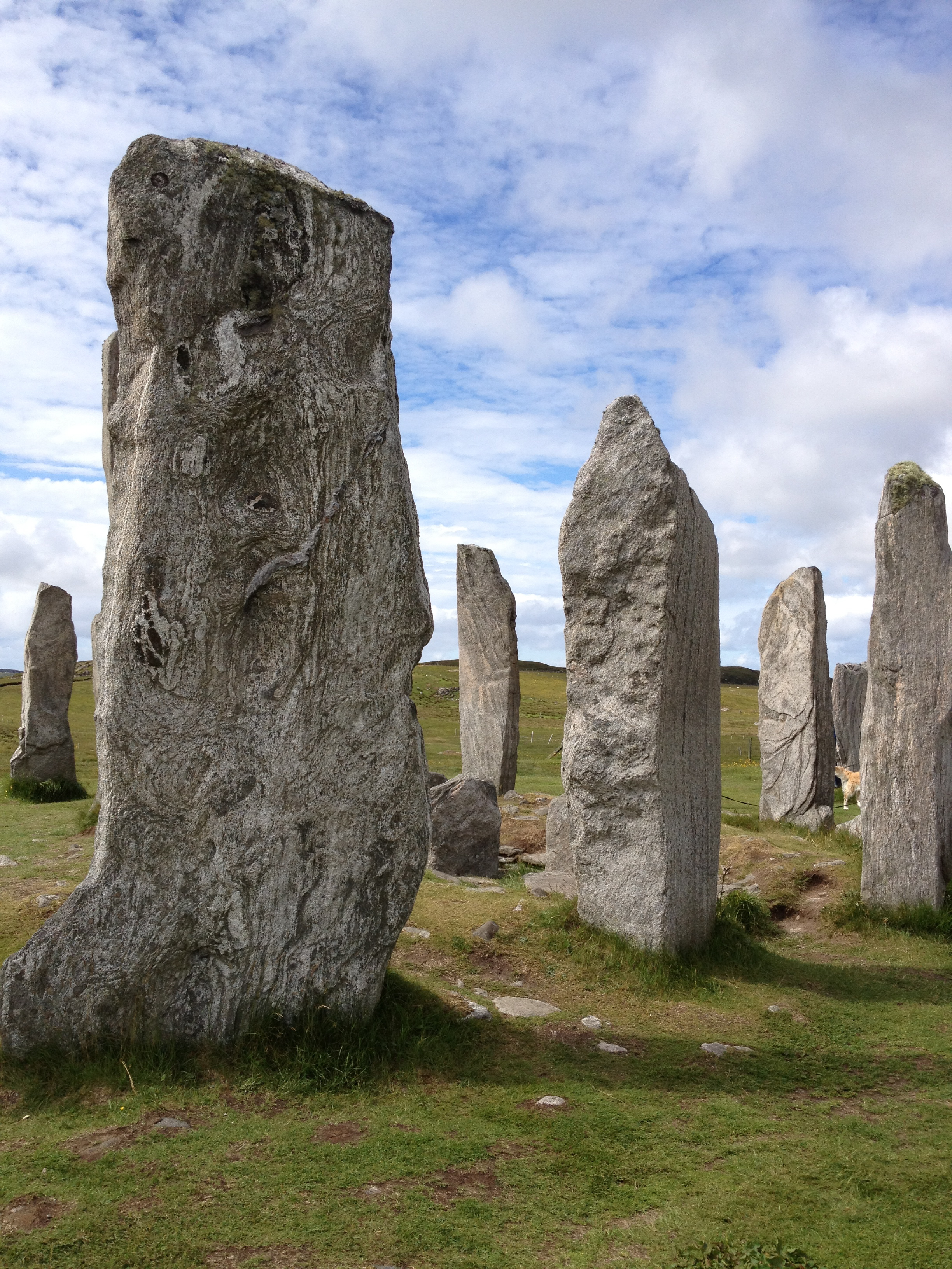 Callanish Stones Wikidata has entry Q3242938 with data related to this item.